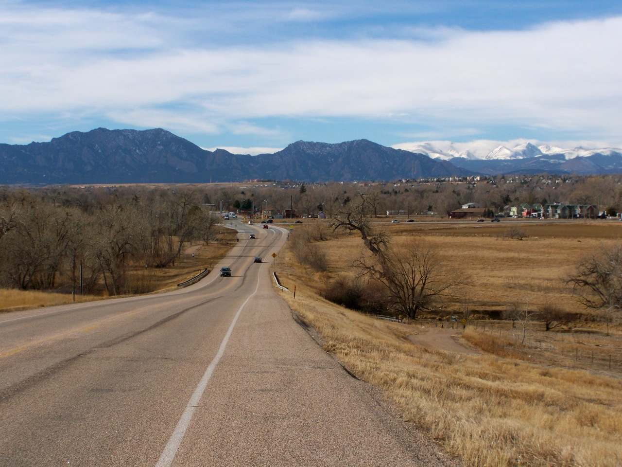 Colorado State Highway 42 looking west near Louisville, Colorado.